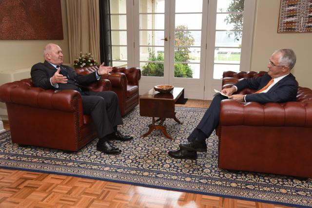 Malcolm Turnbull, Prime Minister of Australia, visits Sir Peter Cosgrove, Governor-General of Australia, at Government House, Canberra, to request both houses of Parliament be dissolved and to enable a double dissolution election to be held on 2 July 2016.